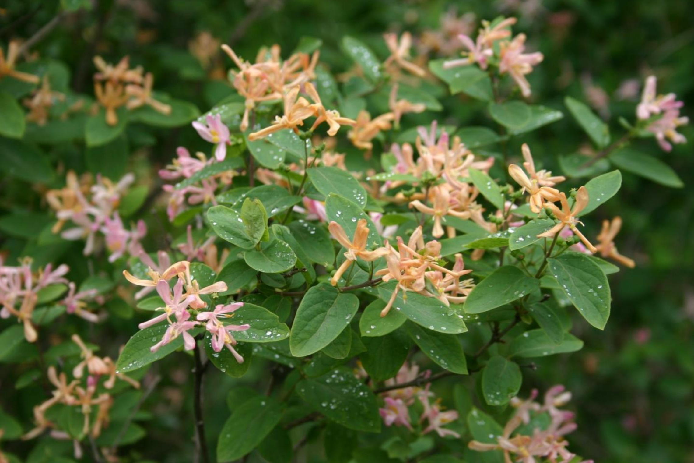 Showy fly honeysuckle, Bell's honeysuckle - Lonicera x bella Zabel [L. morrowii × tatarica] - USA; showing yellowing of flowers as they age